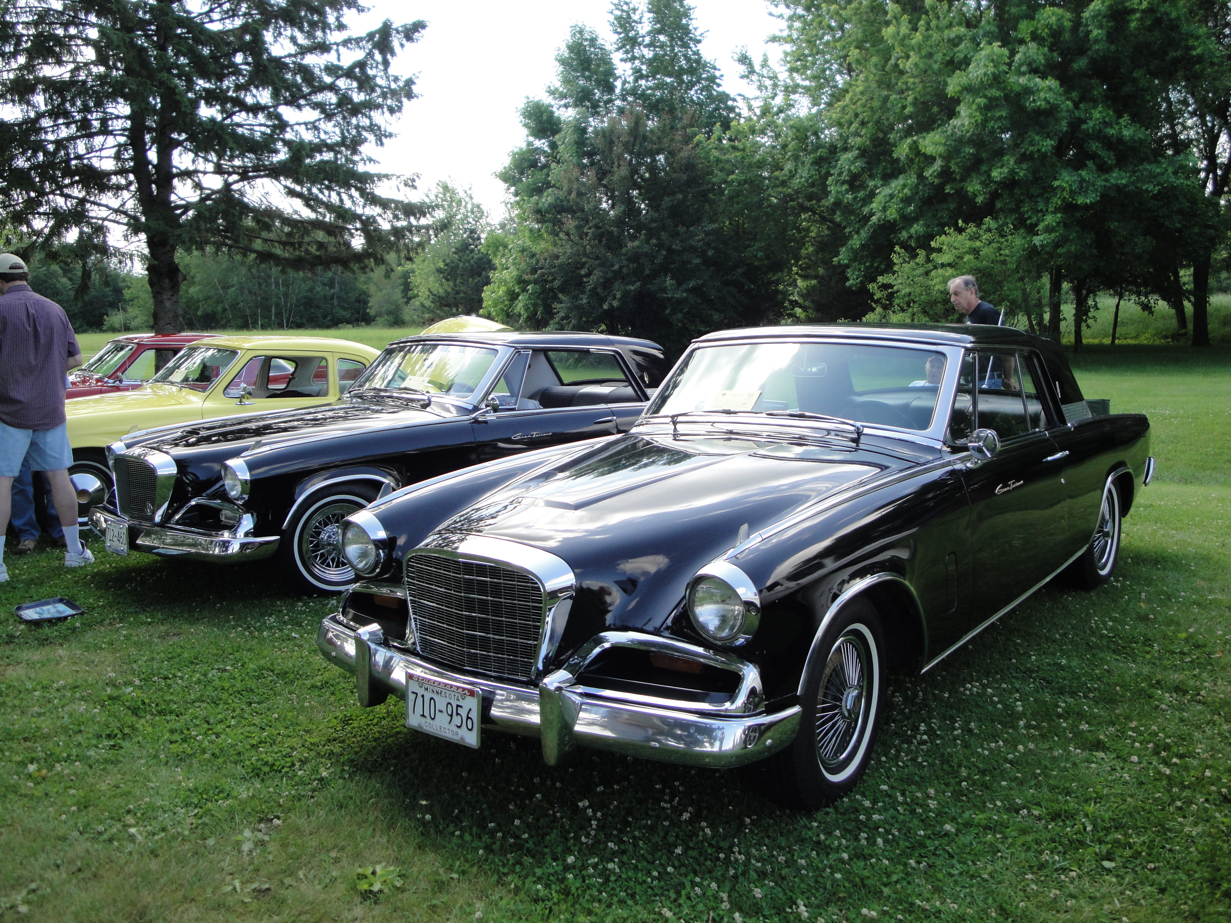 2012 Memorial Day Car Show Hosted by the North Star Chapter of the Studebaker Drivers Club